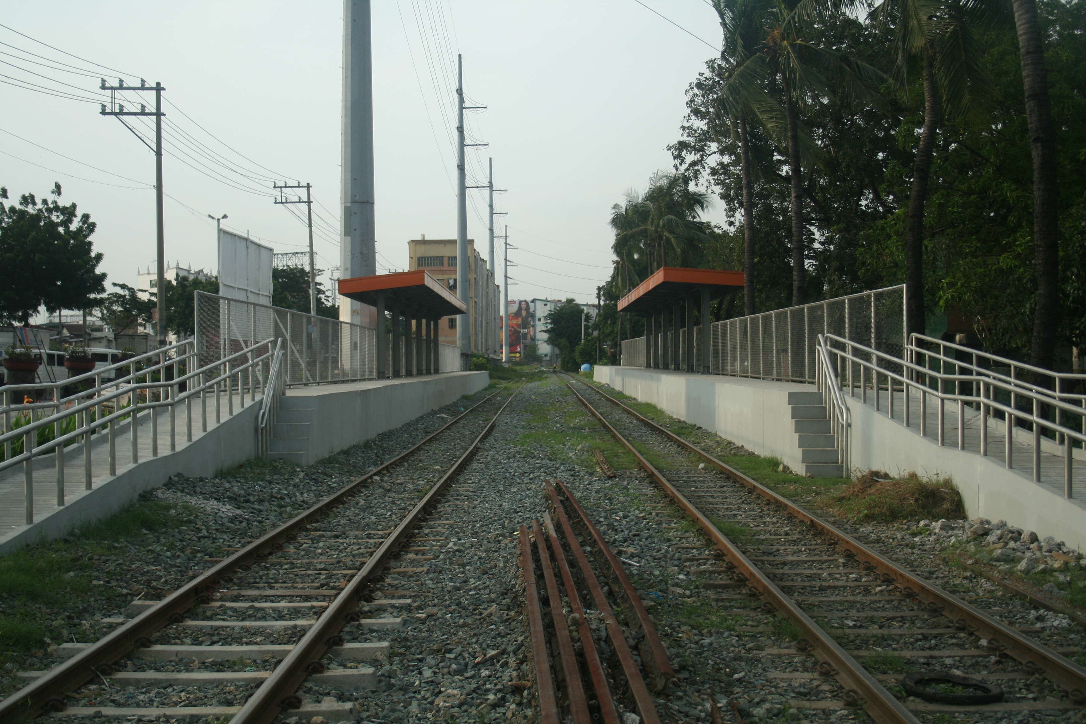 San Andres railway station as seen from the trackbed on San Andres Street.